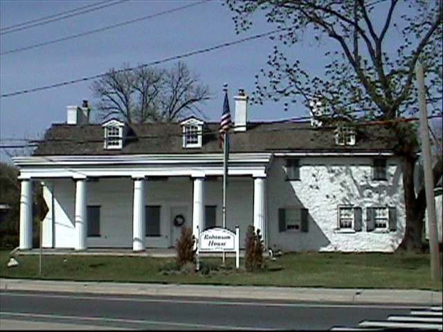 Robinson House (Claymont, Delaware). Photo taken and donated by contributor "APatcher" - April 20, 2006 I grant anyone the right to use this work for any purpose without any conditions.